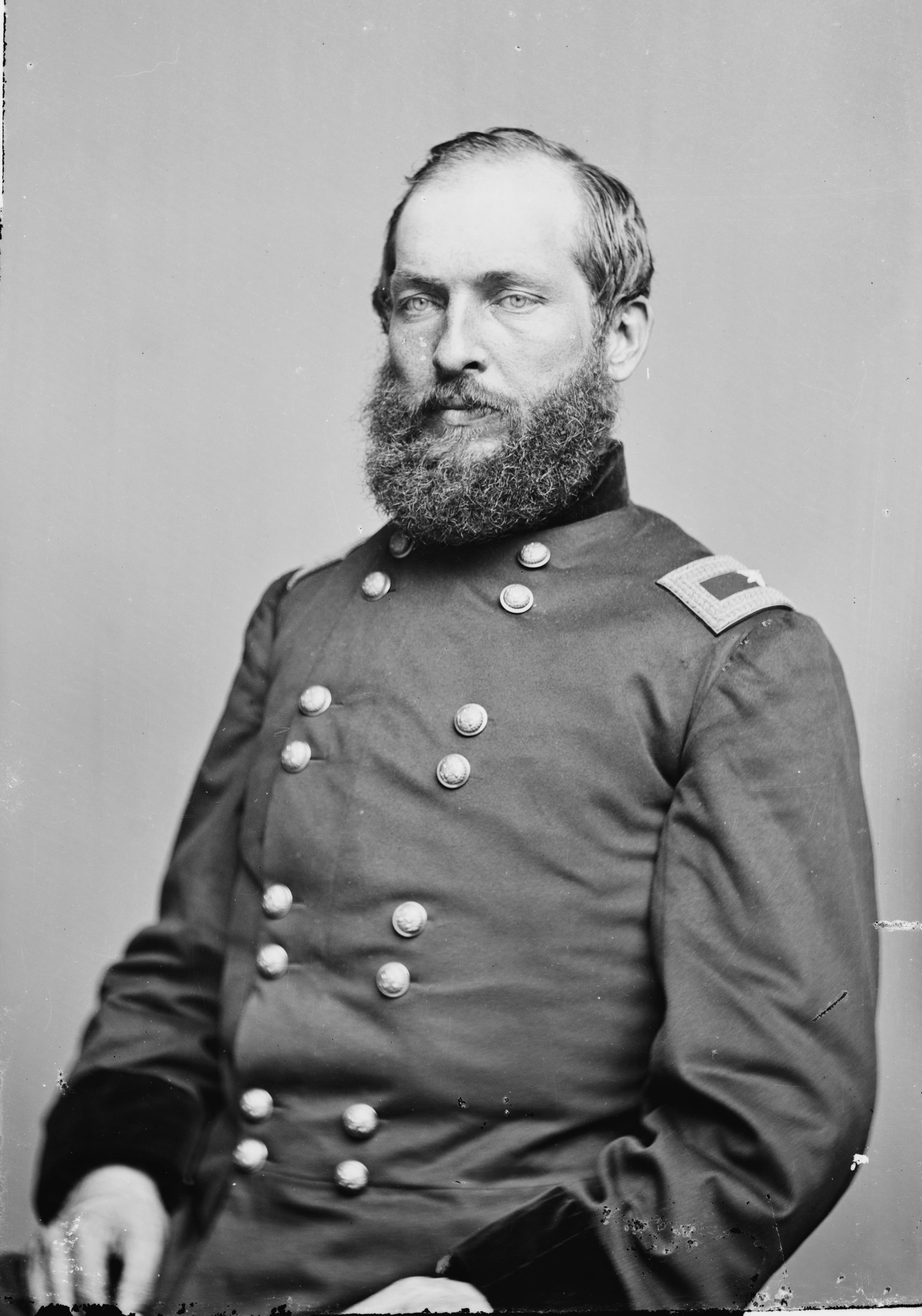 General James Garfield. Library of Congress description: "Gen. James Garfield, U.S.A."